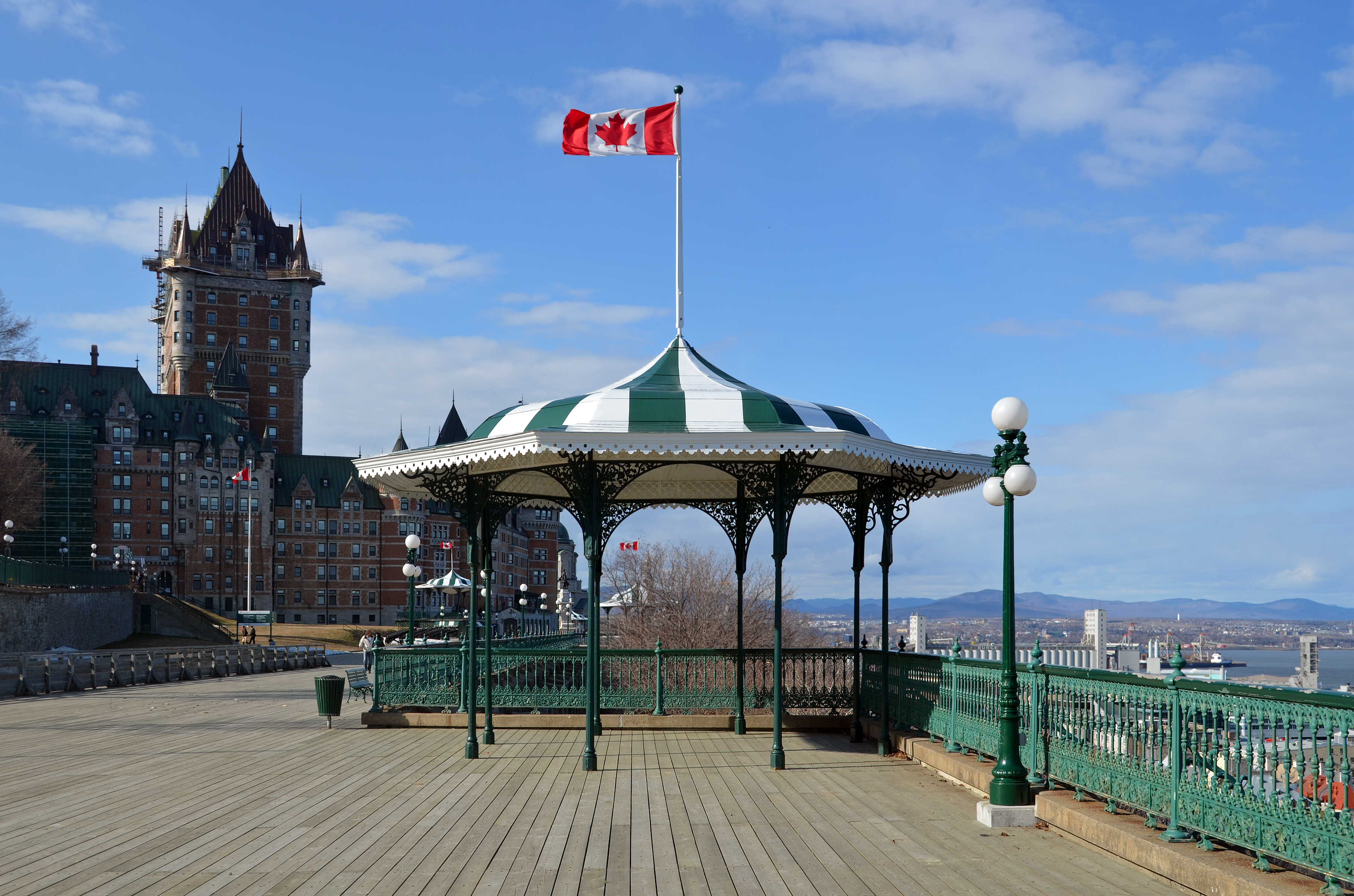 View of Dufferin terrace with a kiosk in front of Château Frontenac - Québec